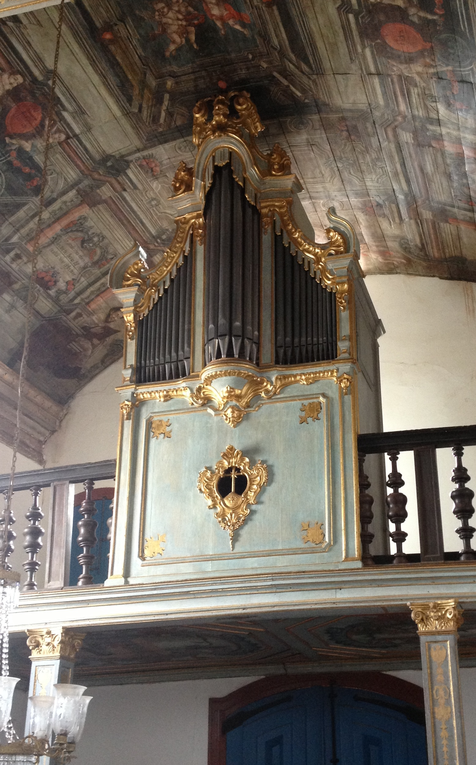 Historical organ Almeida e Silva / Lobo de Mesquita de Diamantina, Minas Gerais, Brasil (1787).